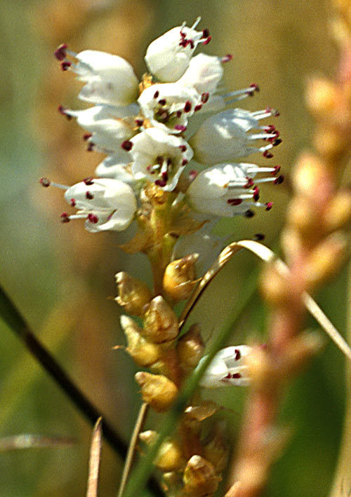 Picture from English Wikipedia. Knotweed, Polygonum viviparum, Svalbard, July 2002, by Michael Haferkamp